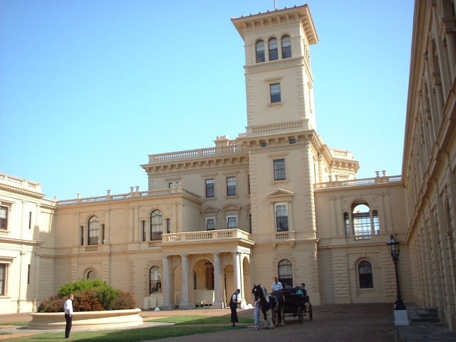 Osborne House. Near the centre of this square.